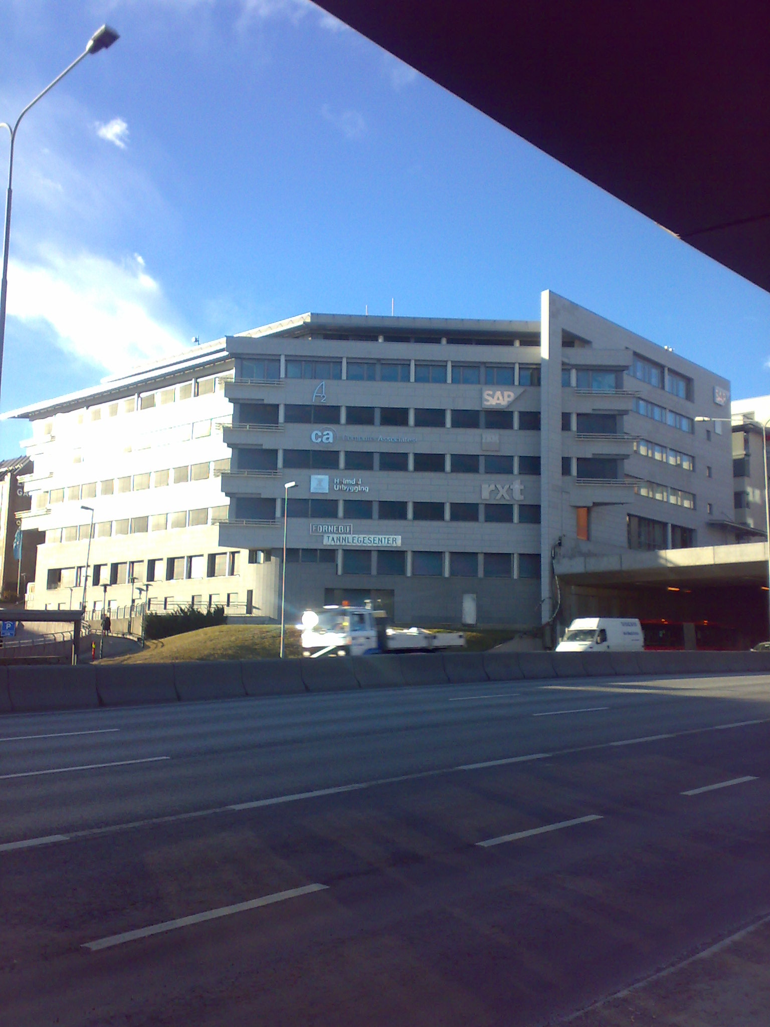 An office building, located at Lysaker, Bærum, Norway.